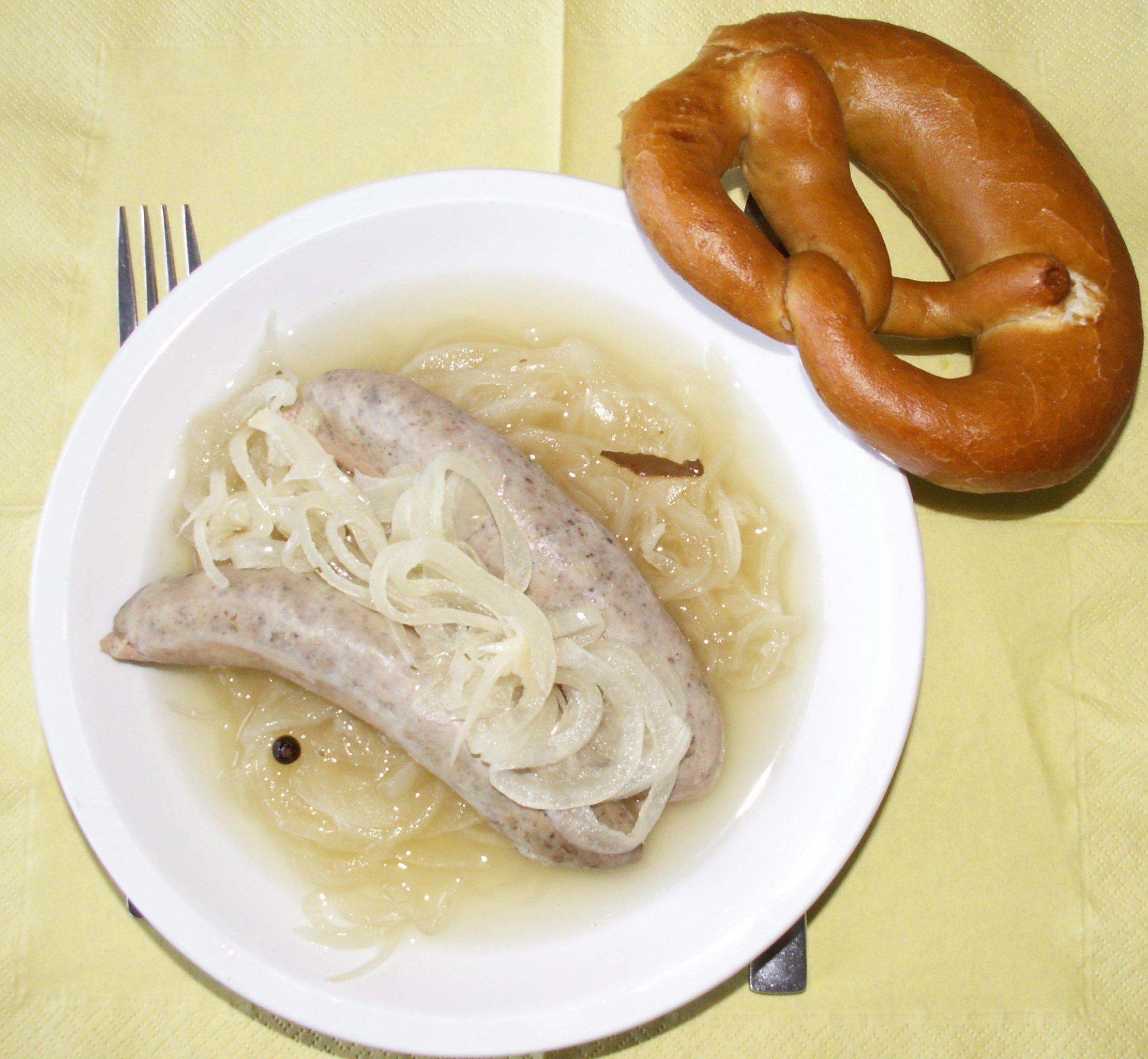 Blaue Zipfel (franconian sausages, cooked in vinegar with onions, carrots and spices)